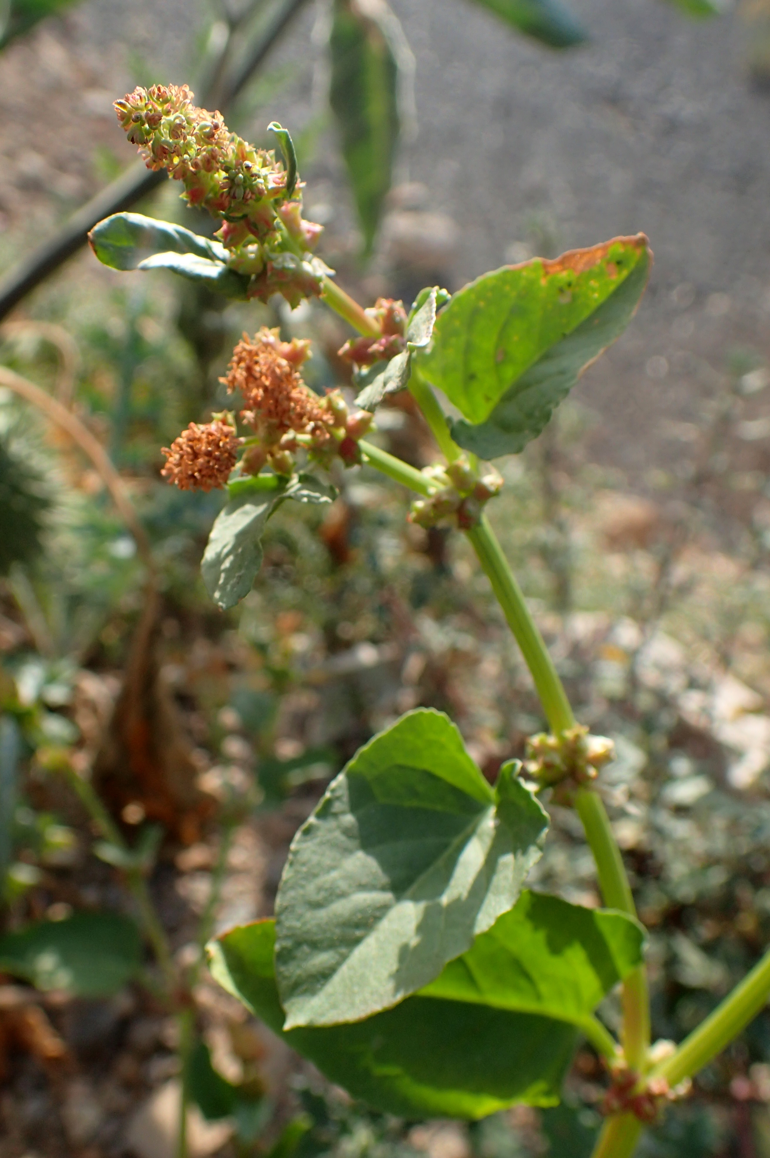 Emex spinosa in Moreque, Tenerife, Canary Islands